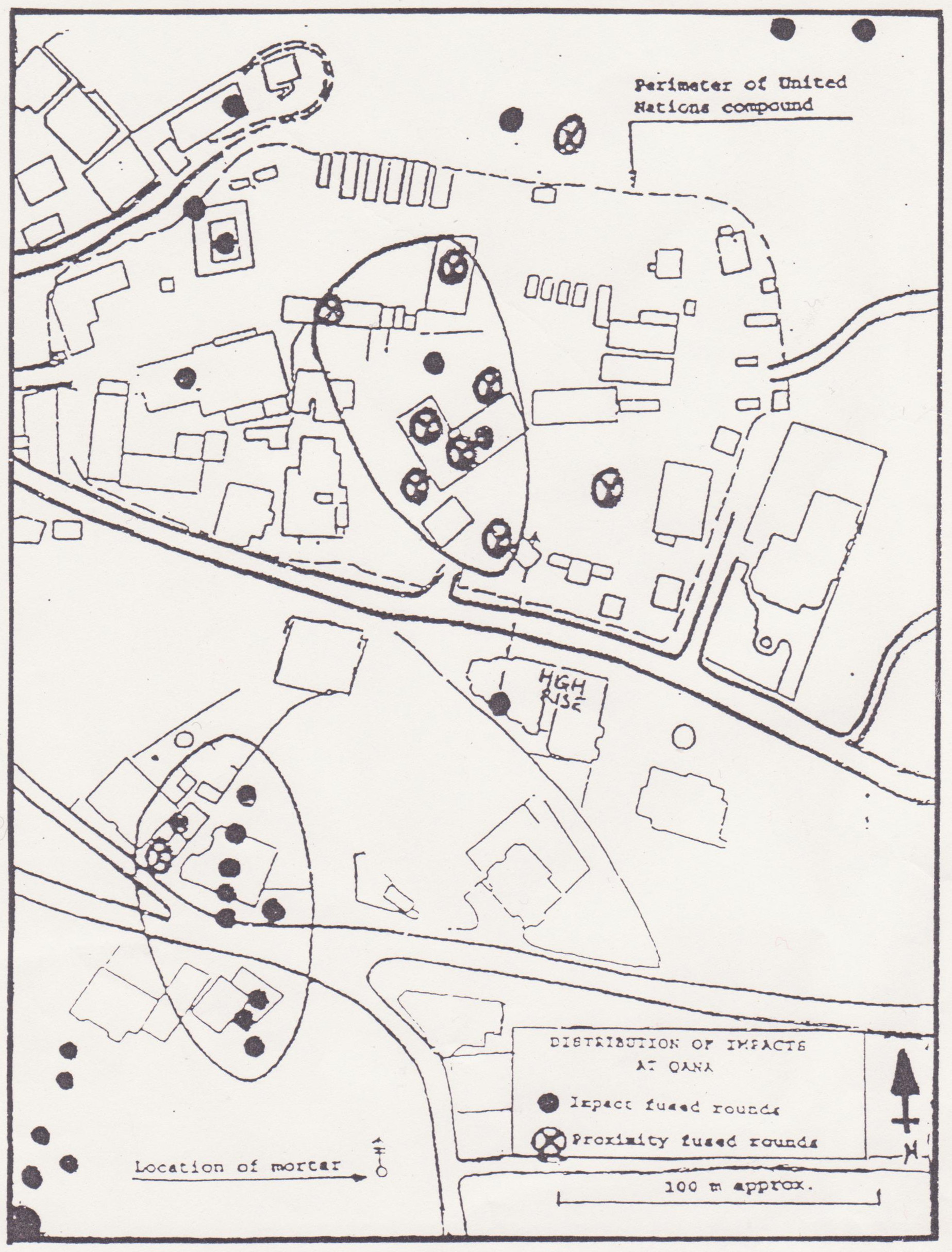 Diagram from Major-General van Kappen's report to the Secretary-General of UN Boutrous Boutros-Ghali dated 7 May 1996 (S/1996/337)